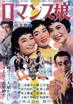 1956 Japanese movie poster for 1956 Japanese film Romantic Daughters (Romansu musume).